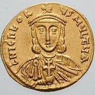 Artabasdos and his son Nikephoros. AV solidus. Constantinople. G APTAUASDOS MULT, facing bust of Artabasdos, wearing crown and chlamys, and holding patriarchal cross / G NIChFORUS MULTUM, facing bust of Nikephoros, wearing crown and chlamys, and holding patriarchal cross.